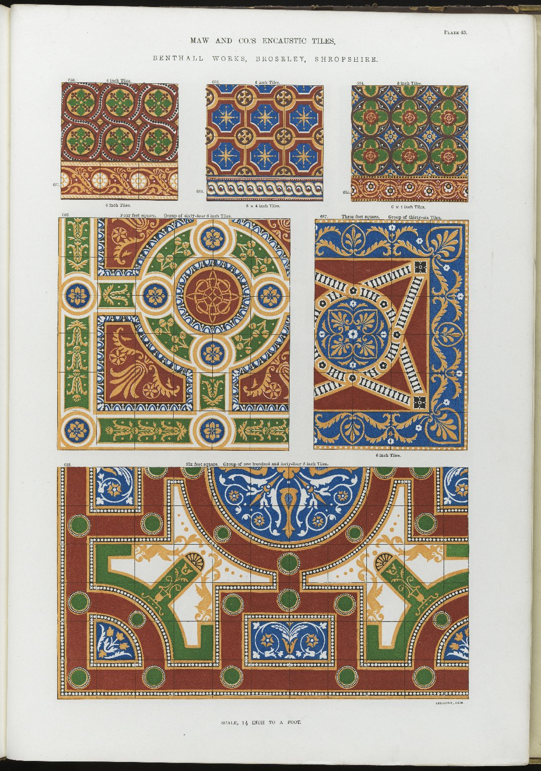 Opening their company in 1850, George and Arthur Maw created lavish tiles out of their Edinburgh factory. This catalogue book was produced 17 years into the company’s history as a means to showcase their products. Each page is headed and labelled as ‘Maw and Co’s Encaustic Tiles/Tile Pavements, Benthall Works, Broseley, Shropshire’ with each title describing its true size once ordered and how many tiles are in a grouping shown to achieve a full/partial picture. Maw and Co still exists after many reincarnations of the company and can be found at company at one time was the largest producers of tiles in the world and served high status customers such as the Royal Family, Alexander II of Russia and many other dukes, earls and other institutions of high calibre. Full record available at: This image is available from the University of Edinburgh Image Collections This item is part of University of Edinburgh Image Collections, wmm~3~3~60940~104012View the image in Wikimedia's IIIF-compliant Mirador viewer which enables high resolution zooming.View the image in its original context in the University of Edinburgh Image Collections Catalogue This file was uploaded as part of a GLAMWiki partnership with the University of Edinburgh. This tag does not indicate the copyright status of the attached work. A normal copyright tag is still required. See Commons:Licensing for more information.